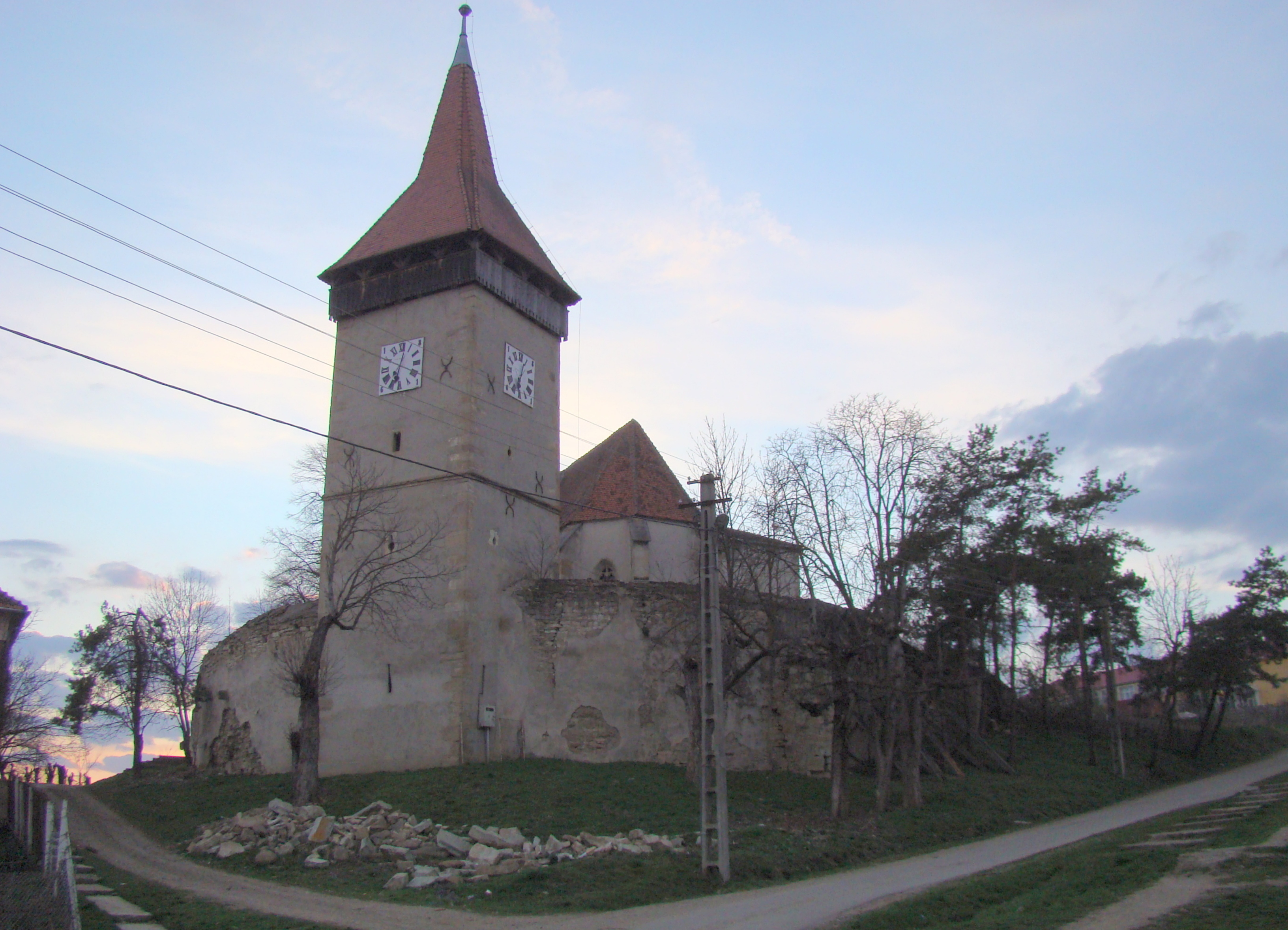 Reformed (former lutheran church) in Lechința, Bistrița-Năsăud county, Romania